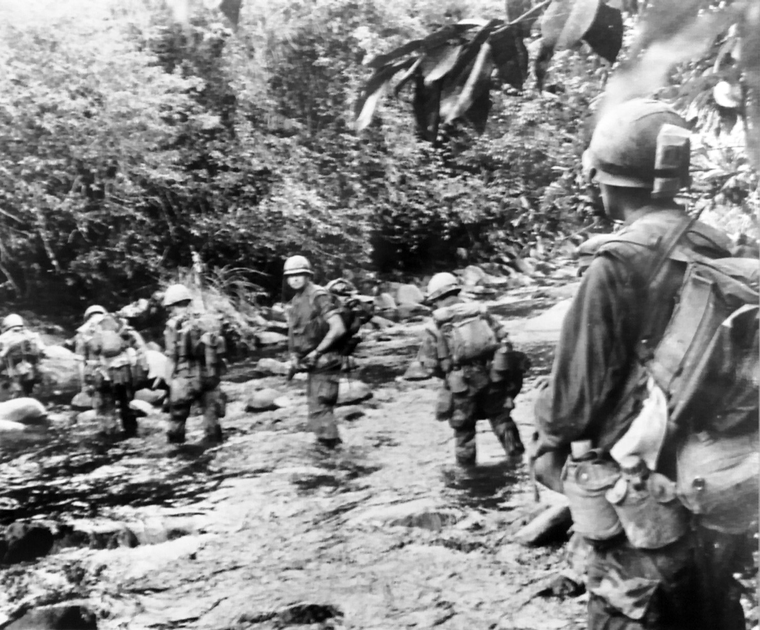 Marines from 1st Marine Division ford a muddy jungle steam in the South Pacific during World War II - Okinawa